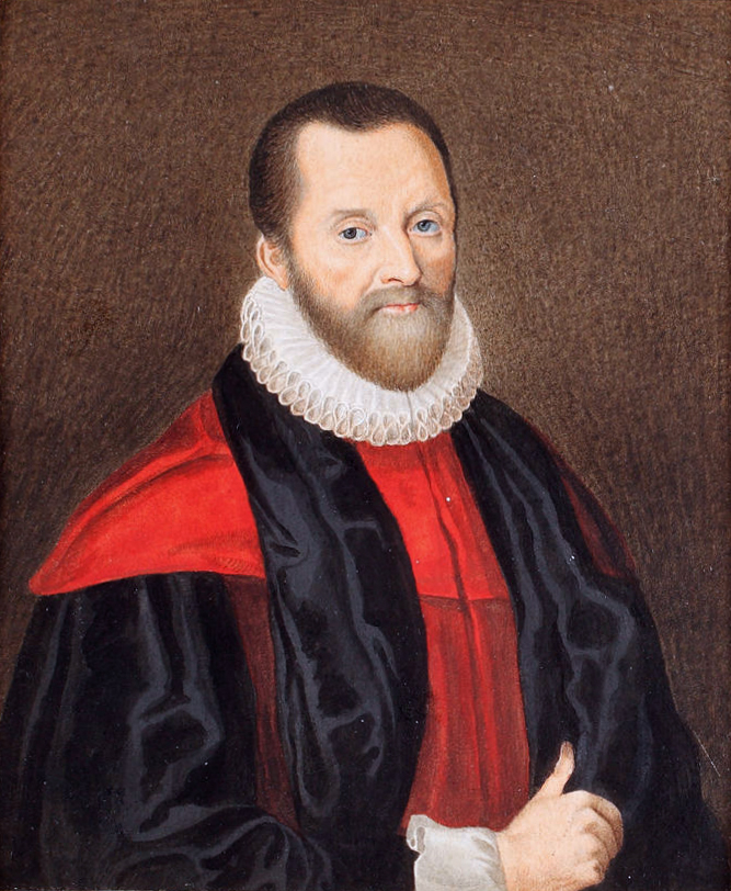 George Hakewill (c. 1578–1649) watercolour on card 12,7 x 10.3 cm